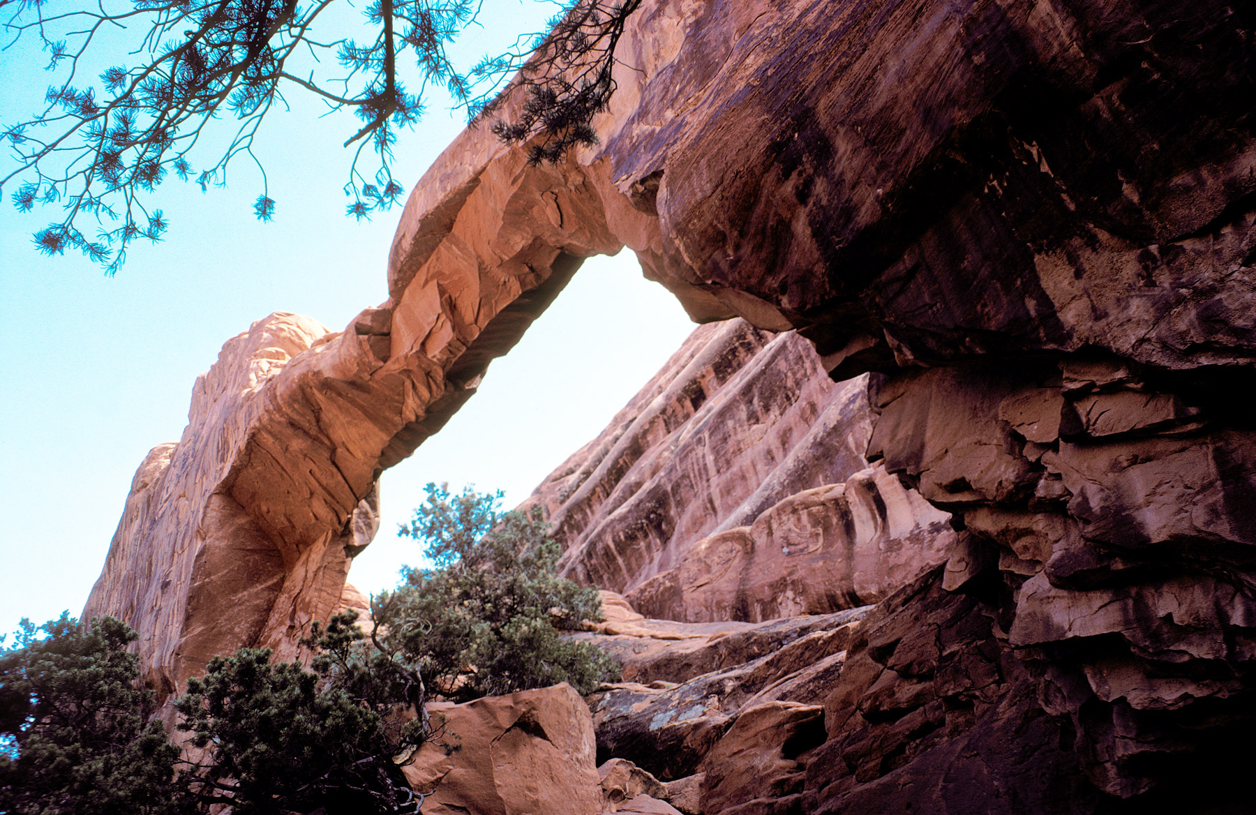 Wall Arch, a natural arch in Arches National Park, Utah, USA - as it was before the collapse in the night of 2008-08-05